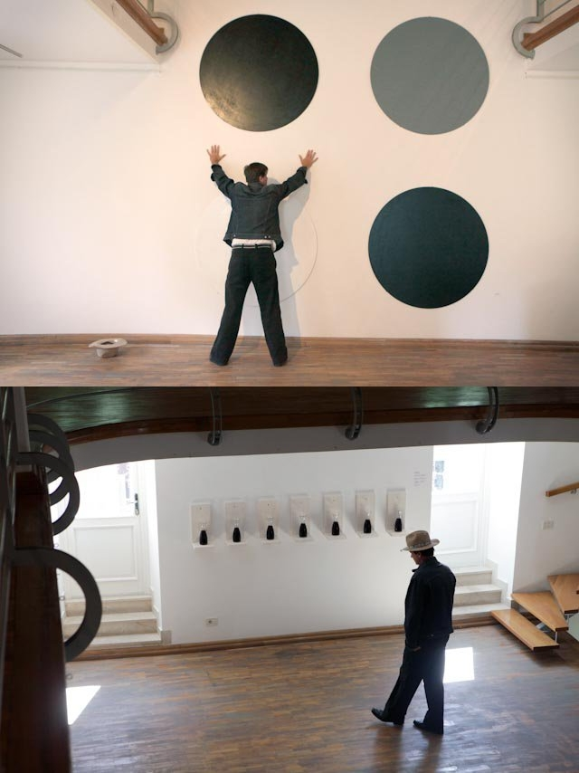 Orlando Mohorovic